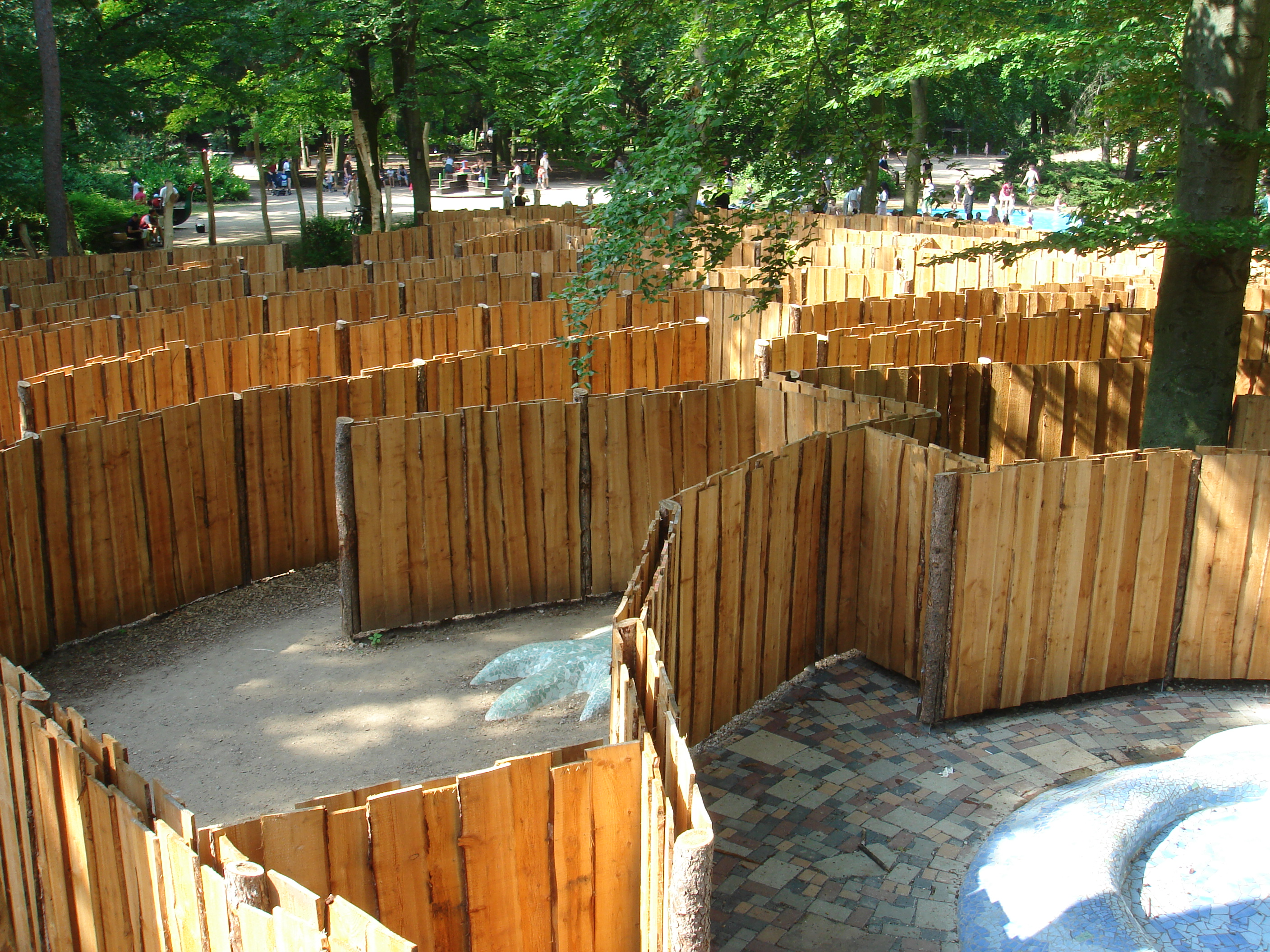 Labyrinth am Waldspielplatz Goetheturm